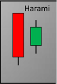 נר אוקר מירידה לעלייה